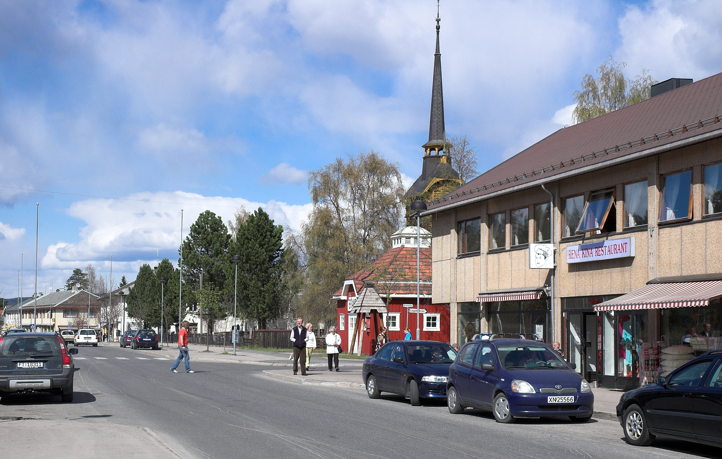 Rena city